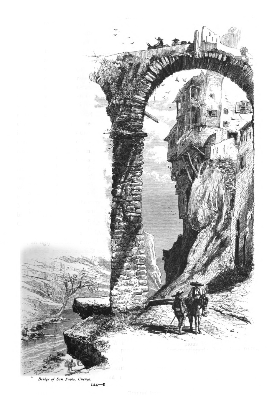 Bridge of San Pablo, Cuenca.